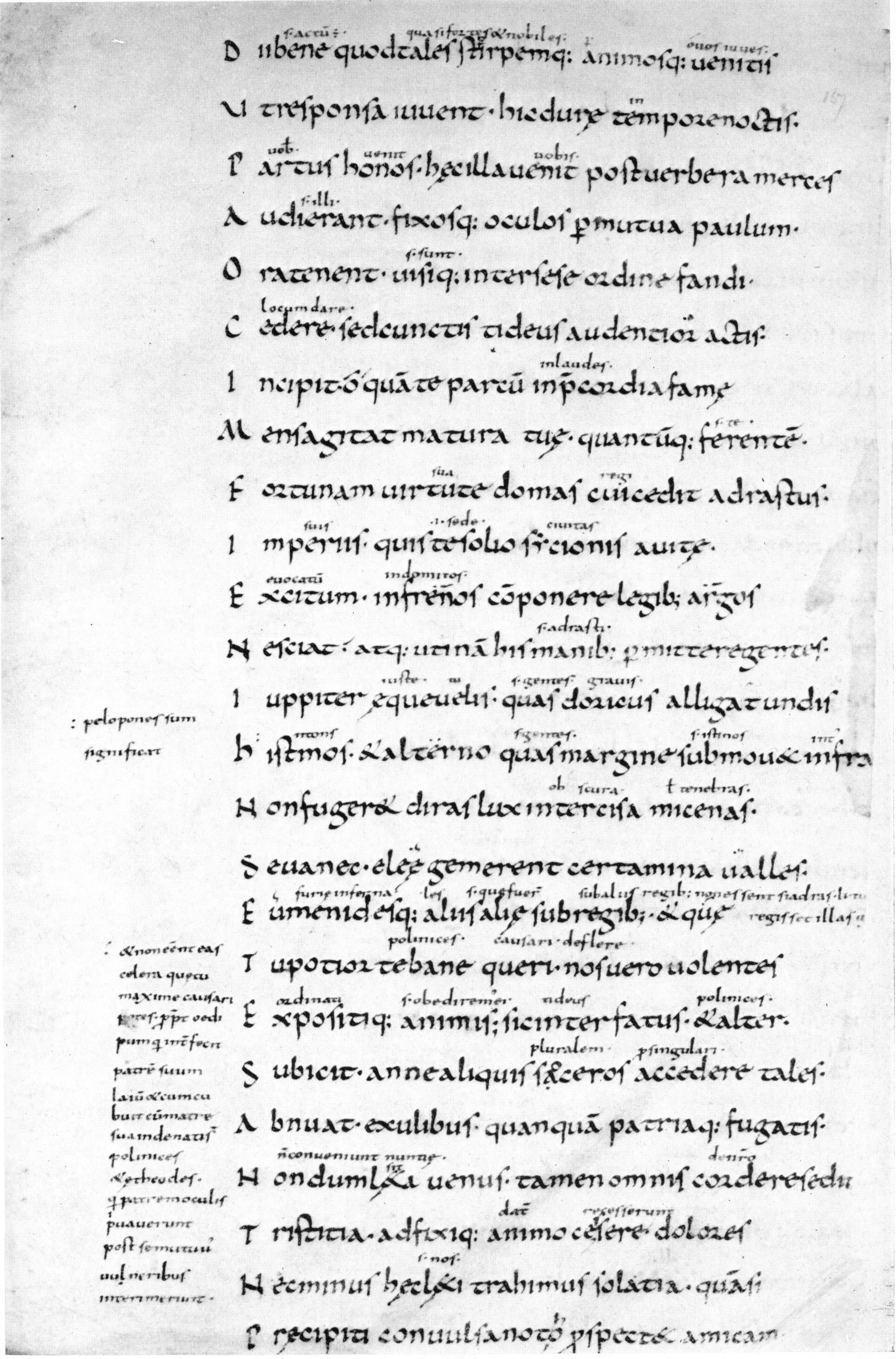 Statius, Thebaid, in ms. Worcester, Cathedral Library, Q. 8, fol. 167r.